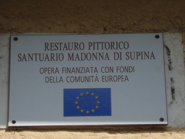 Stele commemorating the support of the European Community